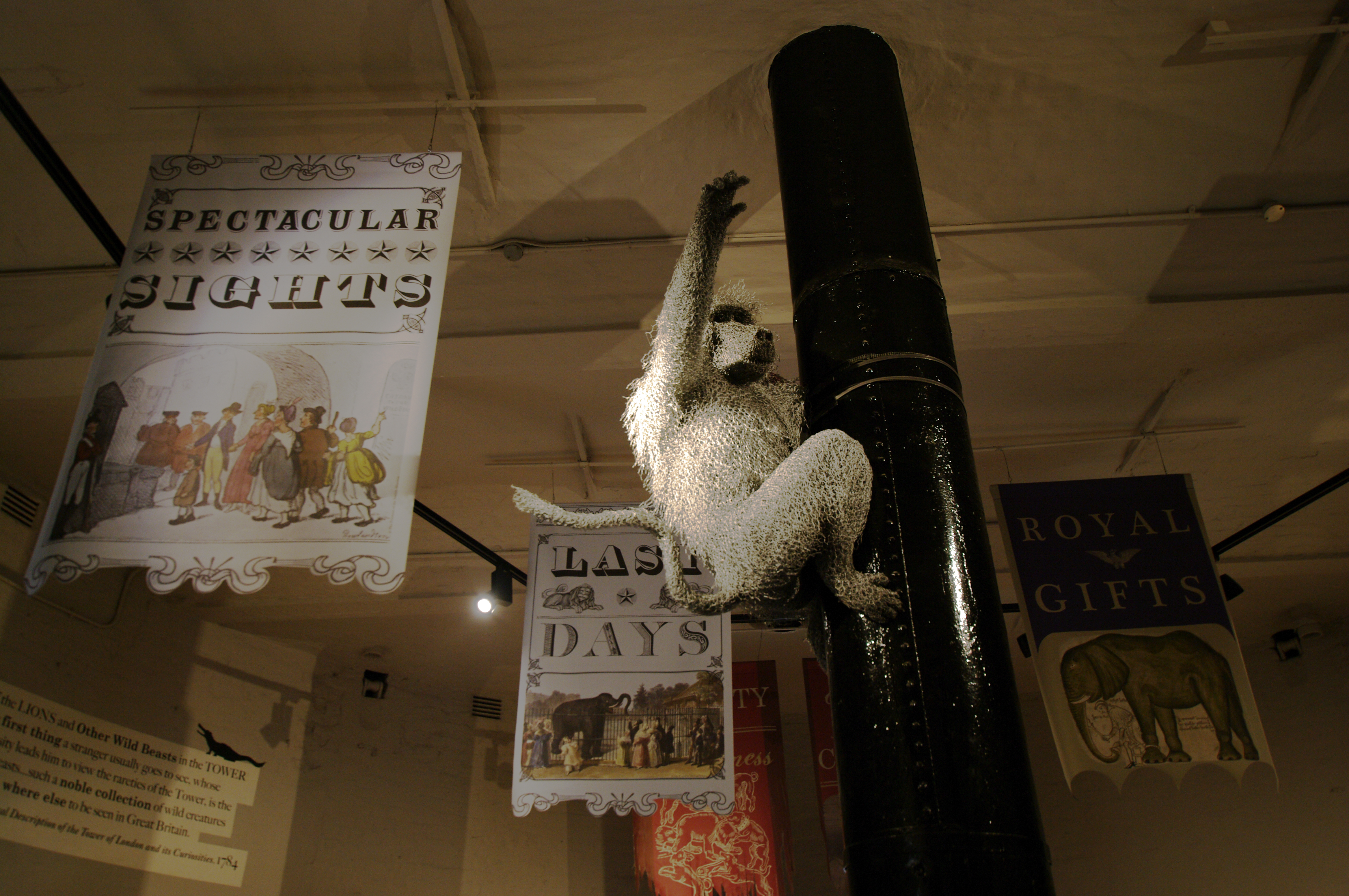 Exhibition of Royal Menagery in the Tower of London